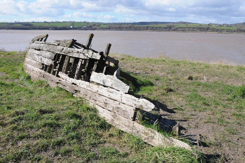 Remains of a wooden barge